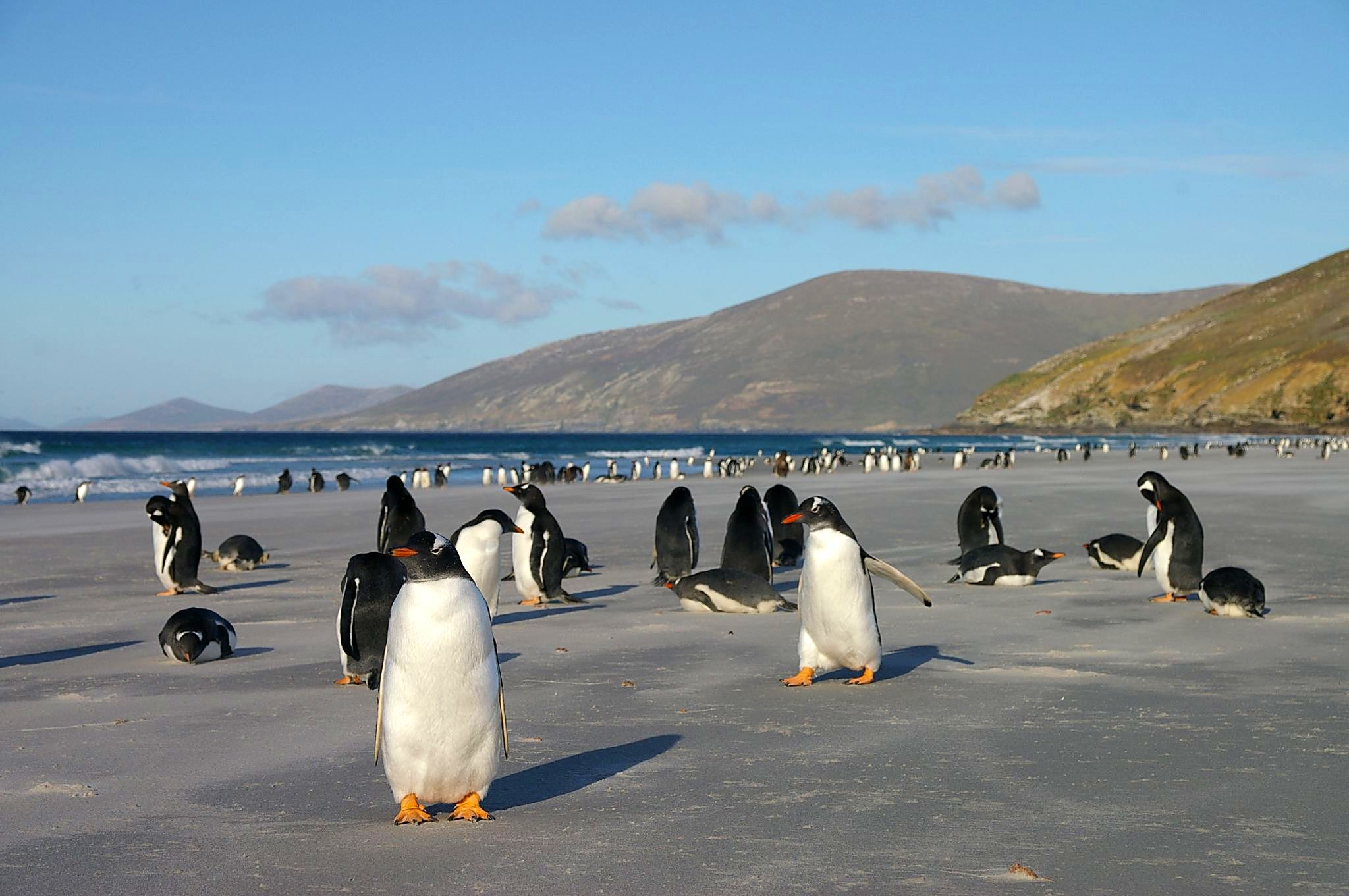 Gentoo Penguin colony (Pygoscelis papua) on Saunders Island, Falkland Islands